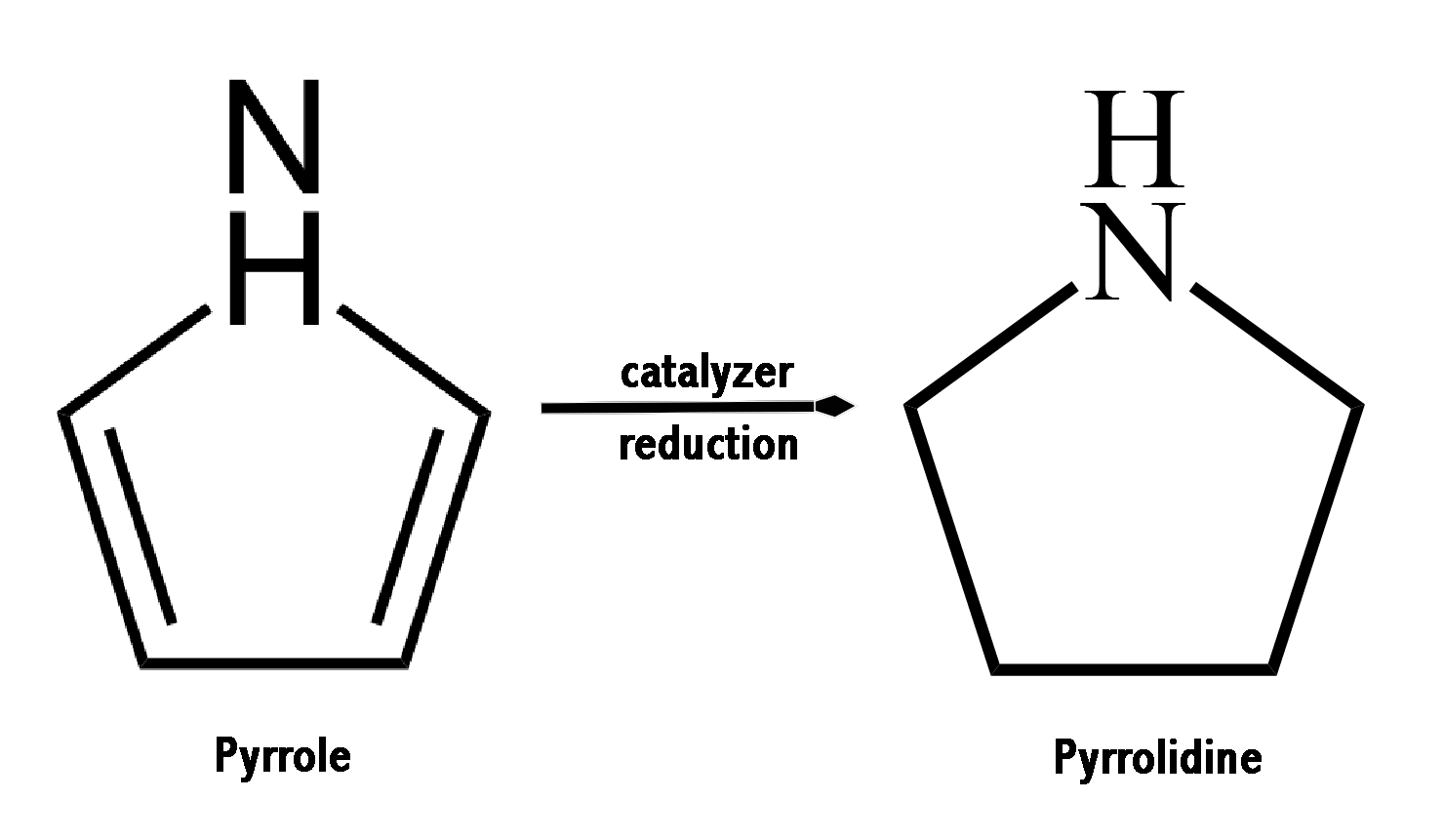 Catalytic Pyrrolidine synthesis from pyrrole